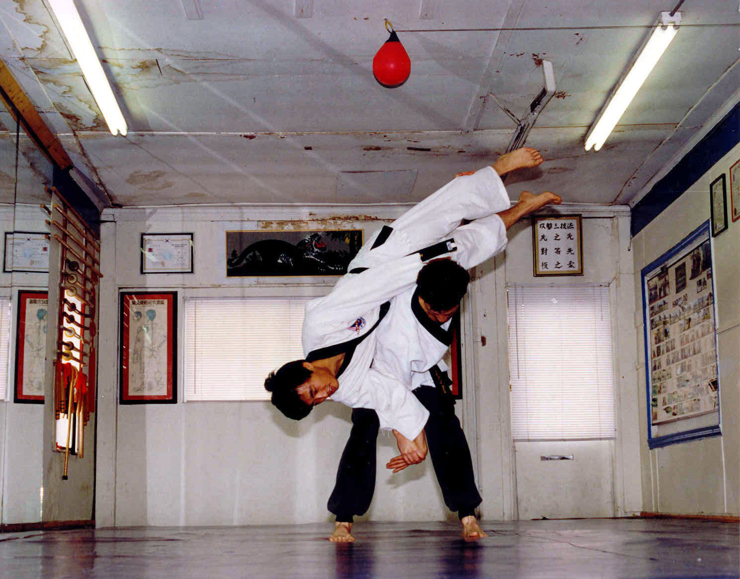 Photo of Grandmaster Chae Un Kim and Master Yi of the Kwon Moo Hapkido Federation (known as Washington Hapkido Association at the time taken). Demonstrating Throwing Technique.